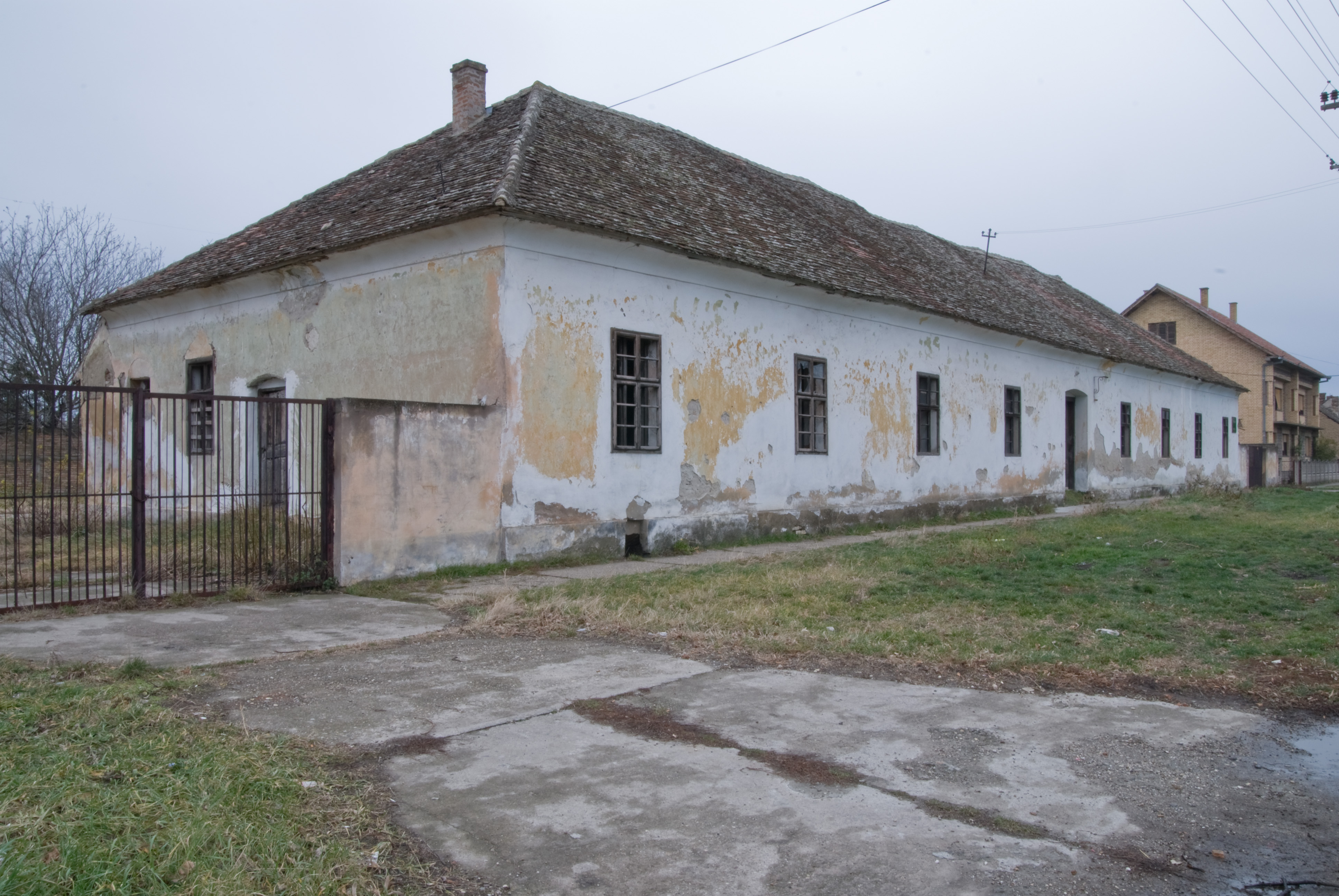 Primary school „Aksentije Maksimović“ in Dolovo, Pančevo